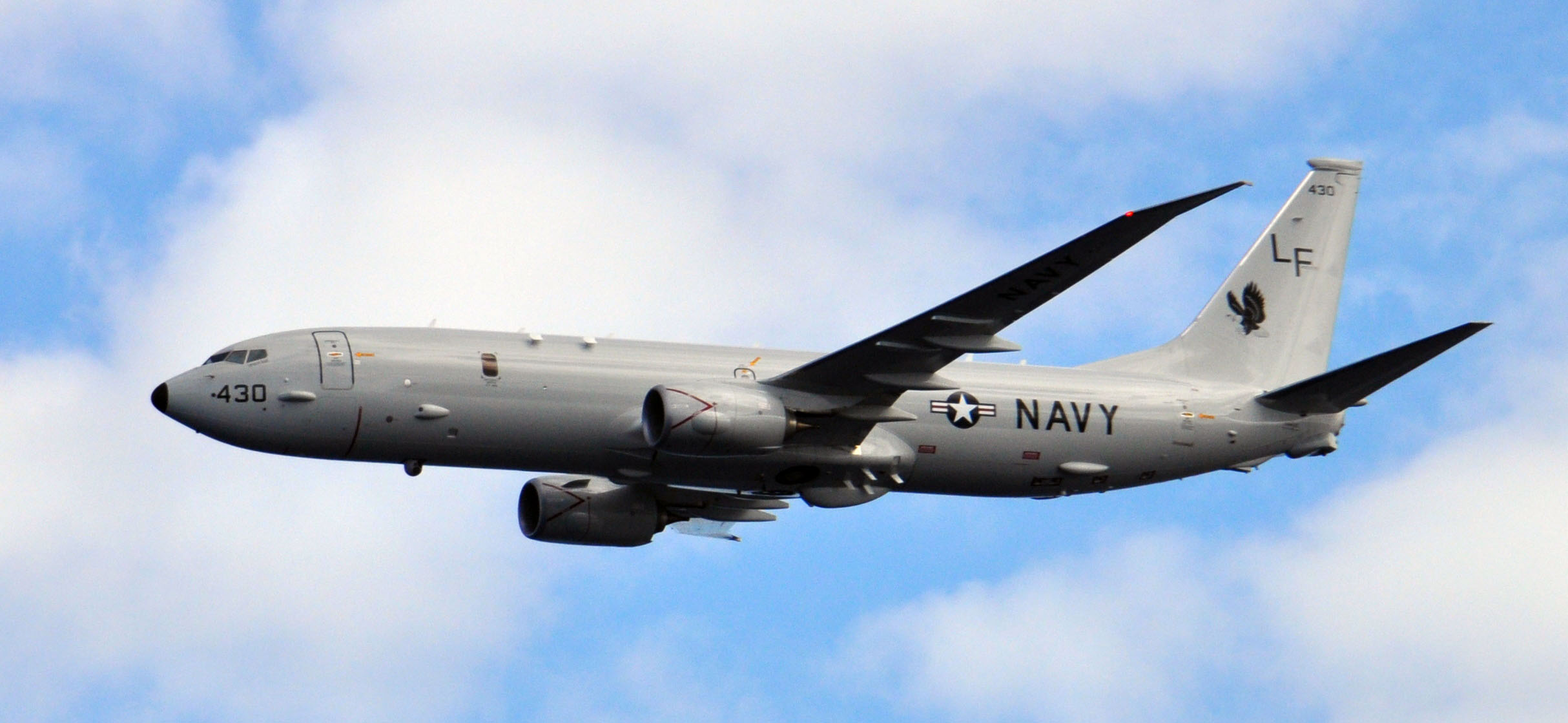 JACKSONVILLE, Fla. (Feb. 6, 2013) A P-8A Poseidon assigned to Patrol Squadron (VP) 16 is seen in flight over Jacksonville, Fla. (U.S Navy photo by Personnel Specialist 1st Class Anthony Petry/Released) 130206-N-ZZ99-035 Join the conversation navylive.dodlive.mil